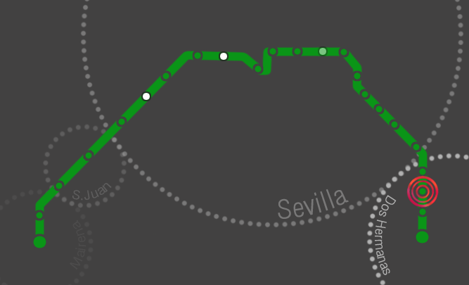 Location